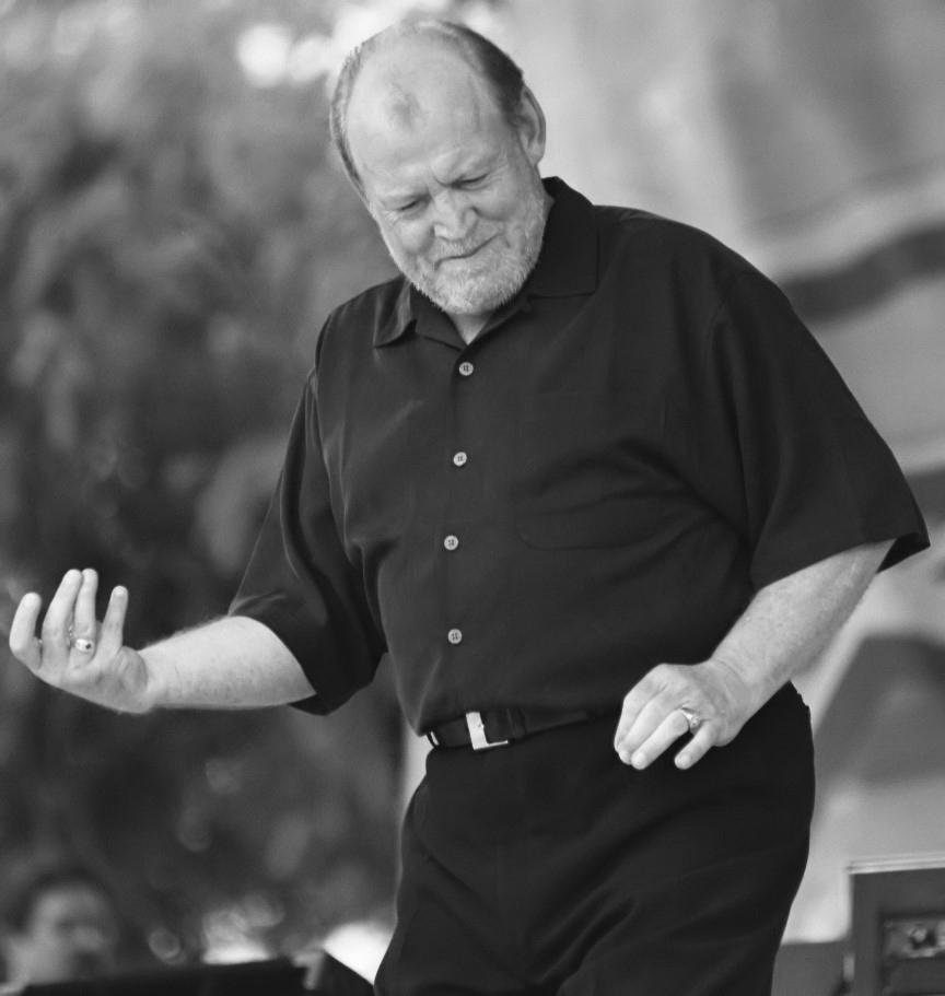 Joe Cocker performing at Gulfstream Park in Hallandale, FL.